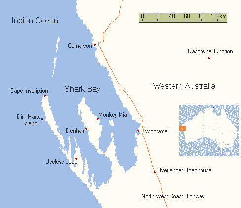 Map of Shark Bay area, Western Australia